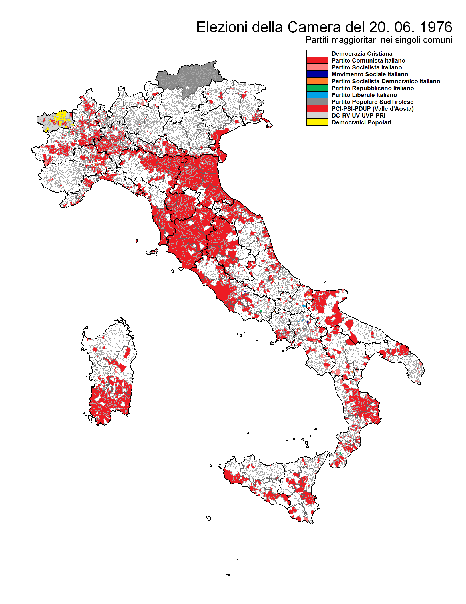 Vittorie elettorali comune per comune nel 1976